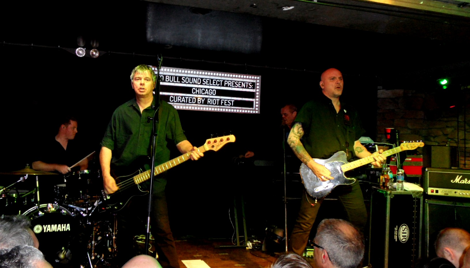 The Stranglers performing at the Cobra Lounge in Chicago on June 7th, 2013 Left-Right: Jim MacAulay (touring drummer), JJ Burnel, Dave Greenfield, Baz Warne